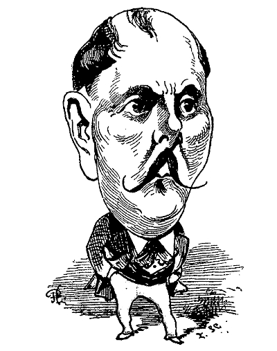 French writer Xavier de Montépin (1823-1902) by Georges Lafosse (1844-1880)